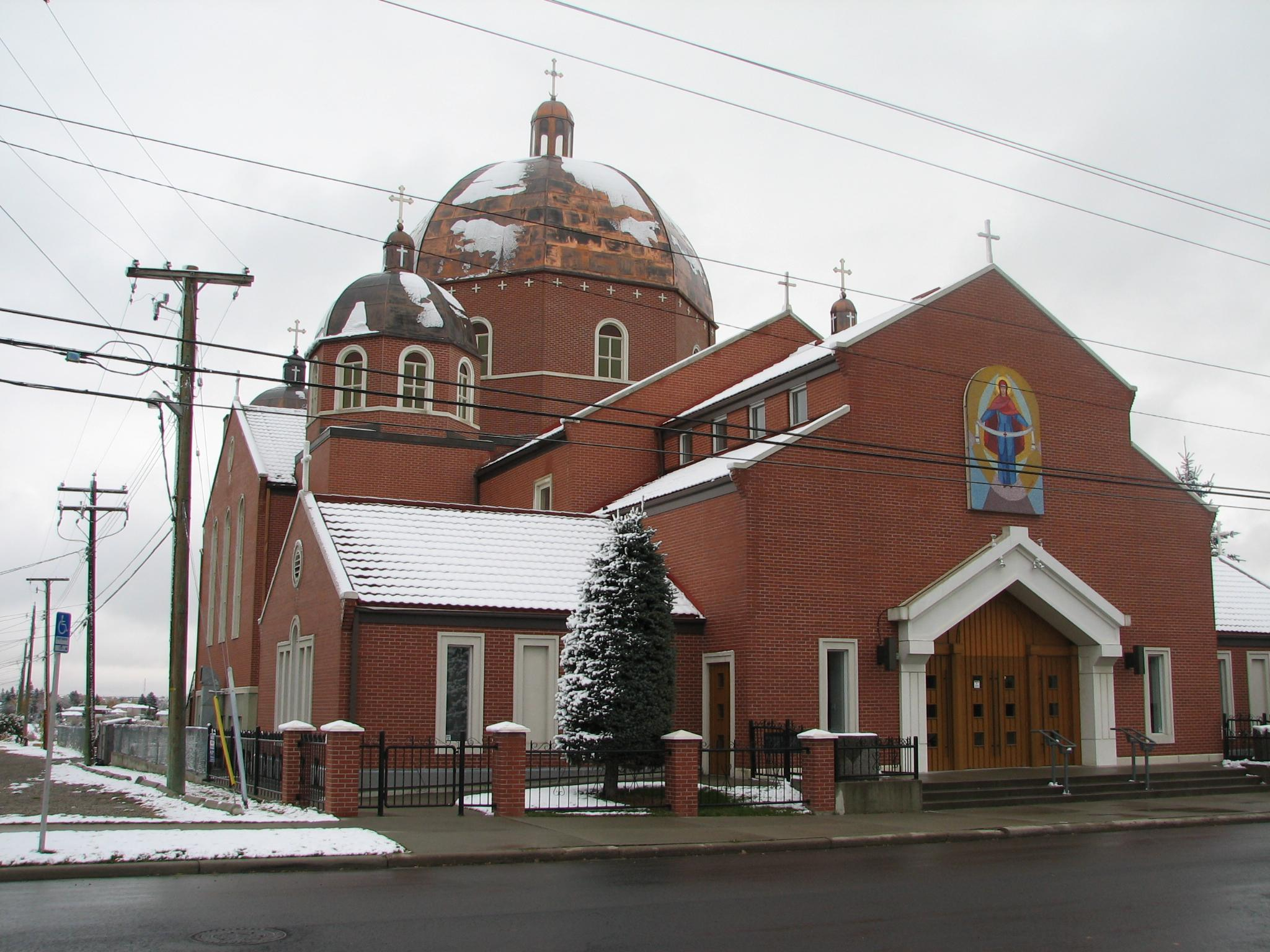 Ukrainian Church in Renfrew, Calgary, taken in October 2006.